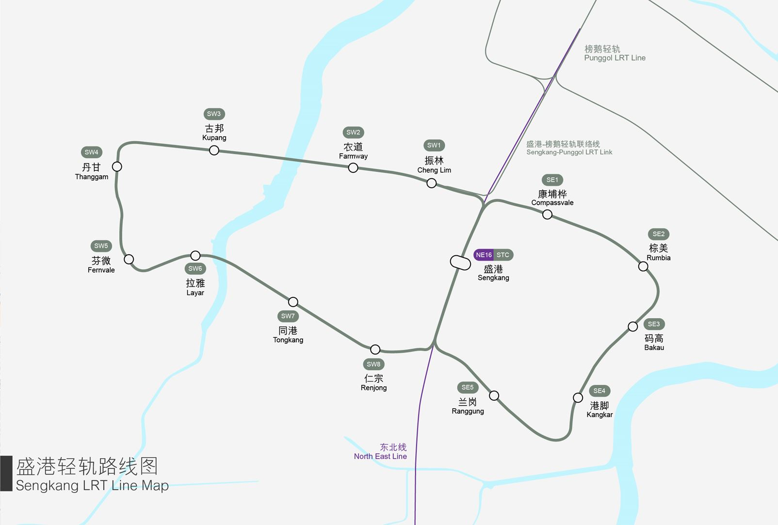 Singapore Sengkang LRT Line Map